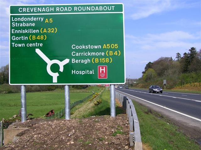 A5 near Crevenagh, Omagh Heading NNW towards Omagh